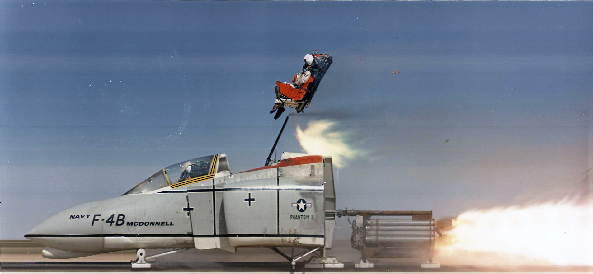 View of the test of an ejection seat using a McDonnell F-4B Phantom II cockpit section at the U.S. Navy Naval Weapons Center China Lake, California (USA), in 1967.